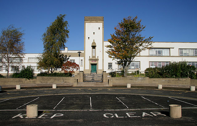 Chirnside Primary School An impressive 1937 Art Deco school that sits back from the A6105.